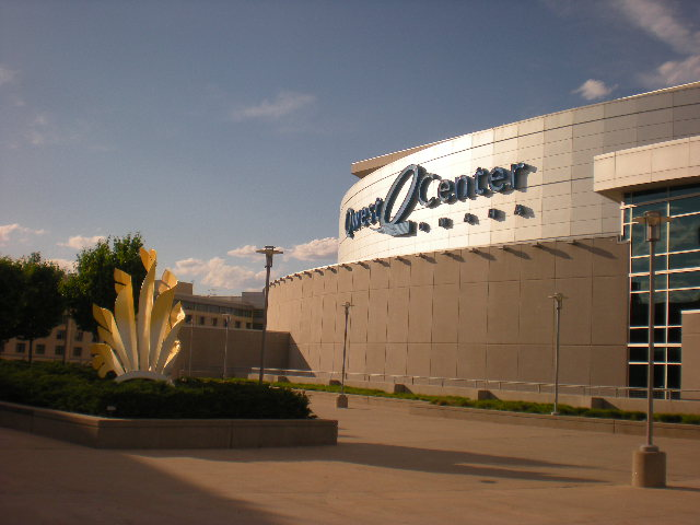 Qwest Center Omaha